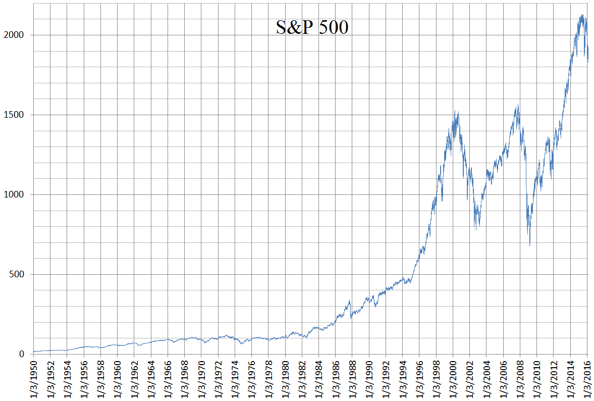 A linear chart of the S&P 500 using closing values from January 3rd, 1950 to February 19th, 2016